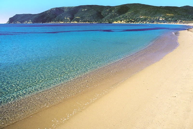 elba